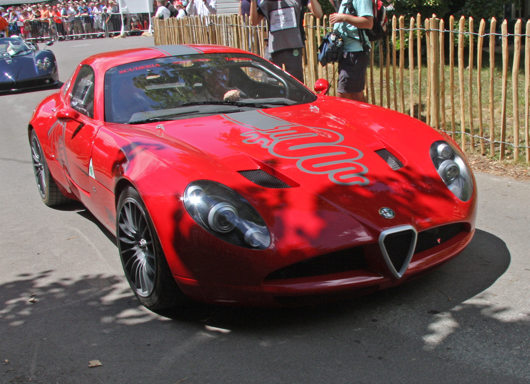 Alfa Romeo TZ3 Corsa by Zagato